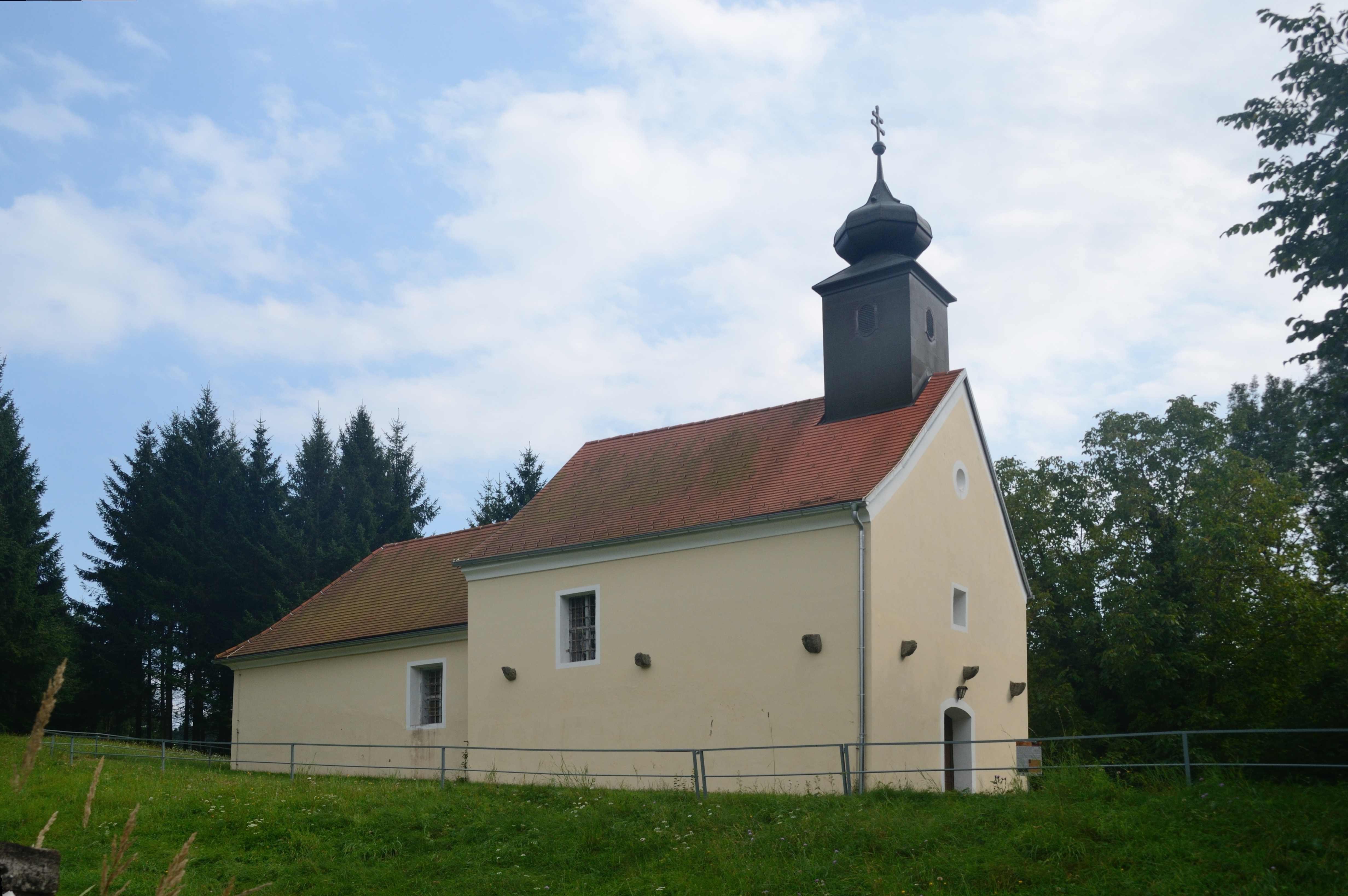 The parish church Saint Nikolaus, in Reinberg, municipality of Riegersberg, Styria, is protected as a cultural heritage monument.